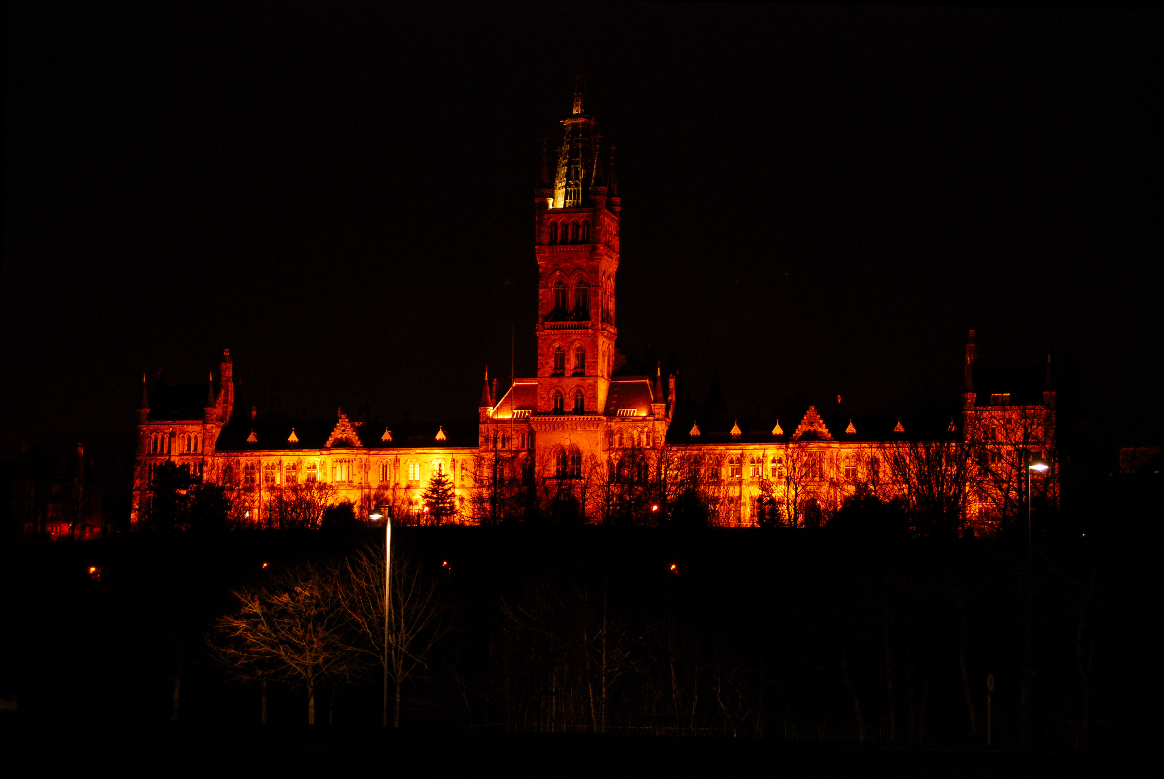 University of Glasgow main building